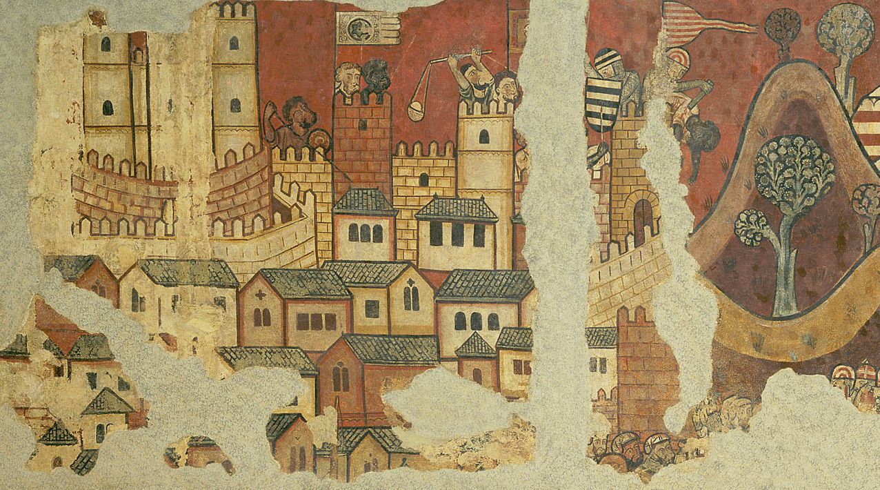 Siege of Madîna Mayûrca.